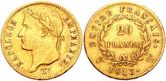 France, First Empire. Napoleon I. First reign, 1804-1814. AV 20 Francs (21mm, 6.40 gm). Lille mint. Tiolier, (Engraver General) & Droz. Dated 1813. Tirage: 104 444 (VG, p. 263) Laureate head left Denomination within wreath; caduceus and W (mintmarks) on either side of date. VG 1025; Friedberg 512; KM 695.10 (C166.7). VF.